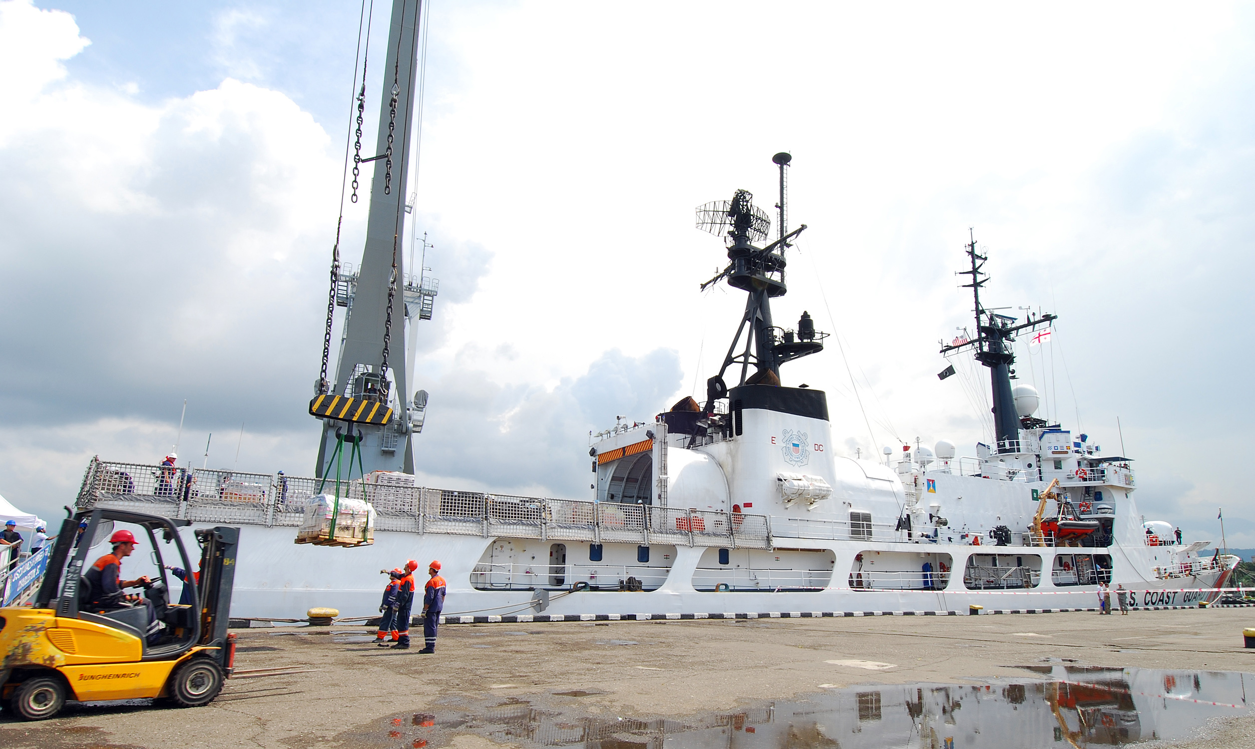 080827-N-4044H-052 BATUMI, Georgia (Aug. 27, 2008) A Georgian forklift driver drives toward a pallet of humanitarian assistance supplies being crane lifted from the U.S. Coast Guard Cutter Dallas, WHEC 716. Dallas was part of Combined Task Force 367, the maritime element of the U.S. humanitarian assistance mission to Georgia.